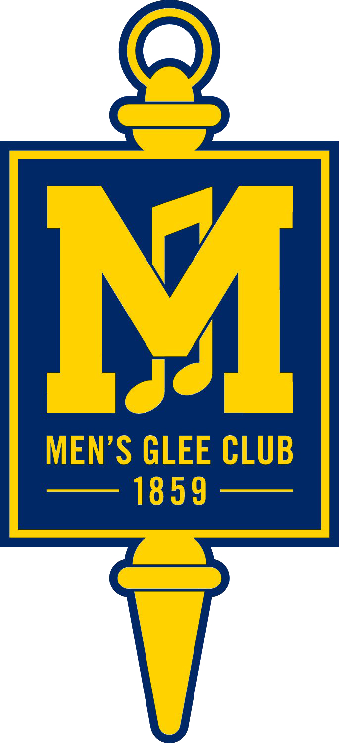 The Men's Glee Club originated in 1859.